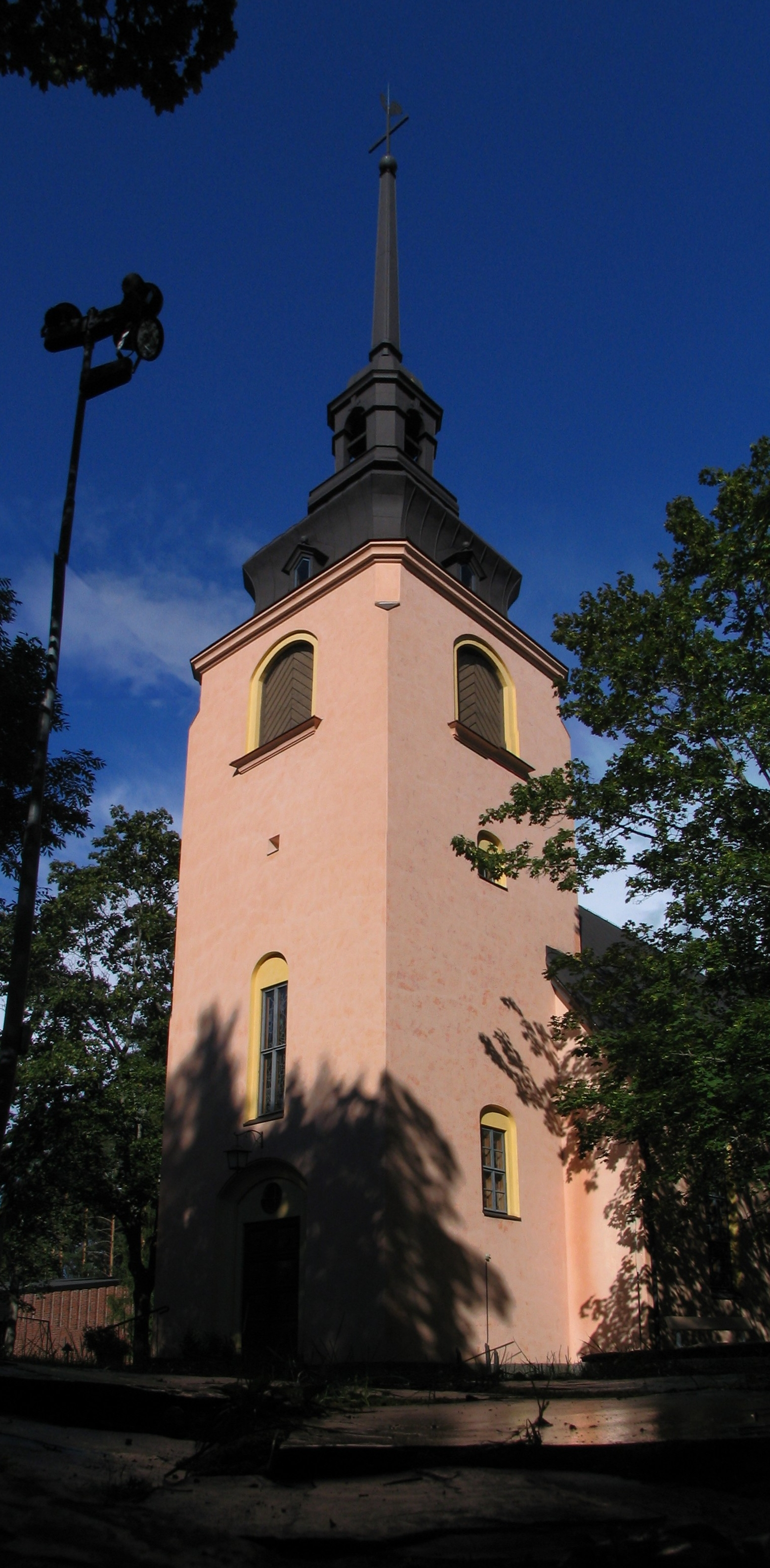 Church of Säynätsalo, Jyväskylä, Finland. Composed from 2 pictures with Hugin (there is small distortion)